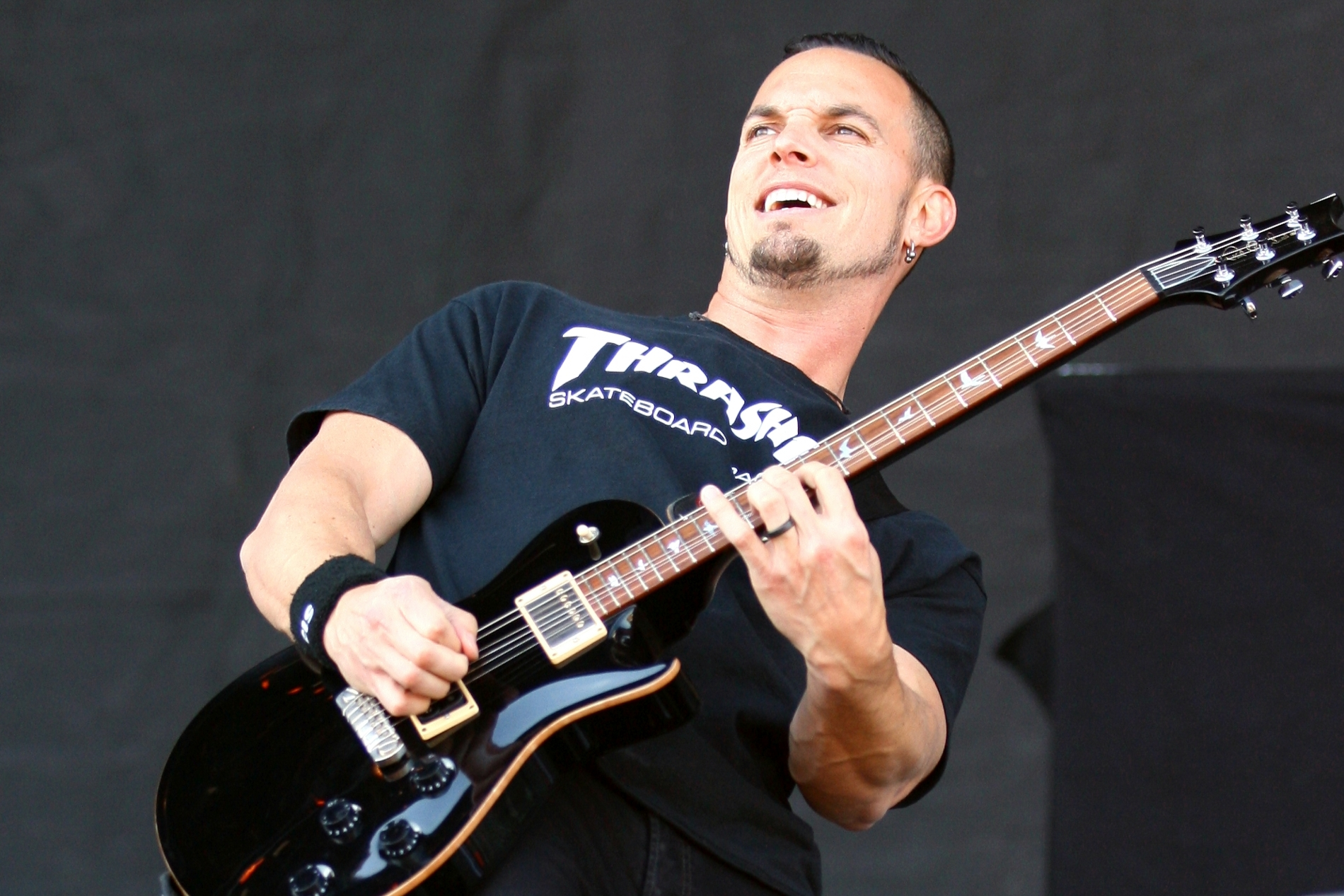 Mark Tremonti, guitarist of Alter Bridge, on the Centerstage of Rock im Park Festival 2014. Festivalsommer This photo was created with the support of donations to Wikimedia Deutschland in the context of the CPB project "Festival Summer".